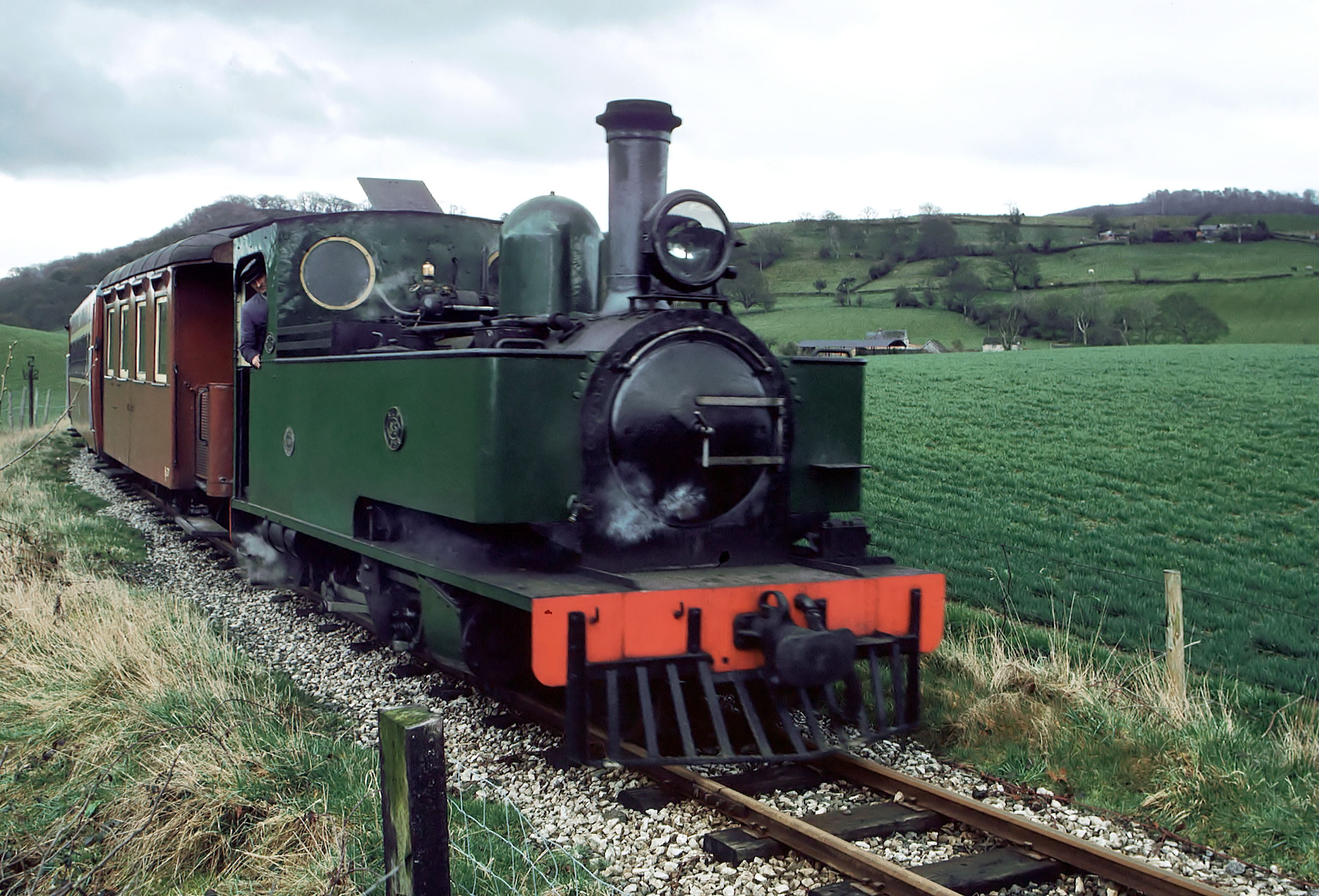 The Welshpool and Llanfair Light Railway (W&LLR) is a narrow gauge heritage railway in Powys, Wales/UK